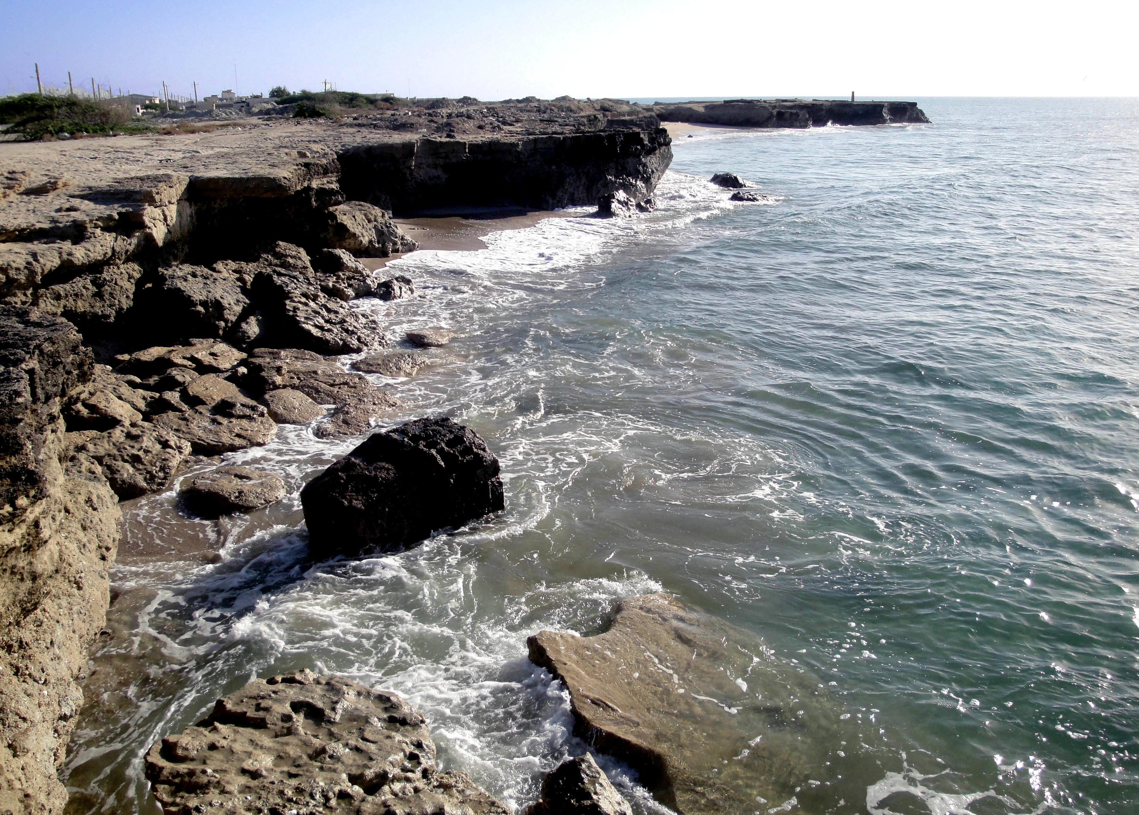 Cape of Jask دماغه جاسک